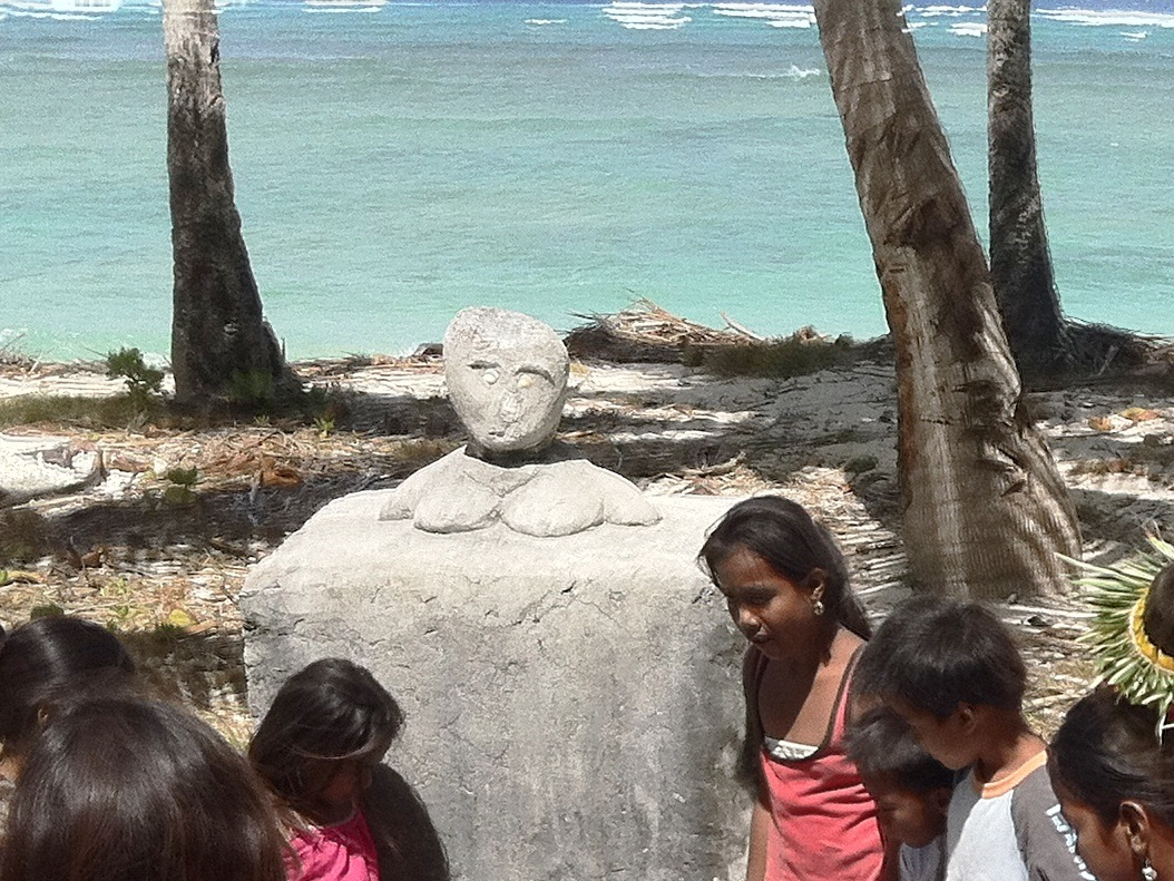 A tradition unique to Marakei is "te katabanin", where visitors visit each of the four shrines of the island, travelling anticlockwise. This shrine is at the northern tip of the island, near the airport